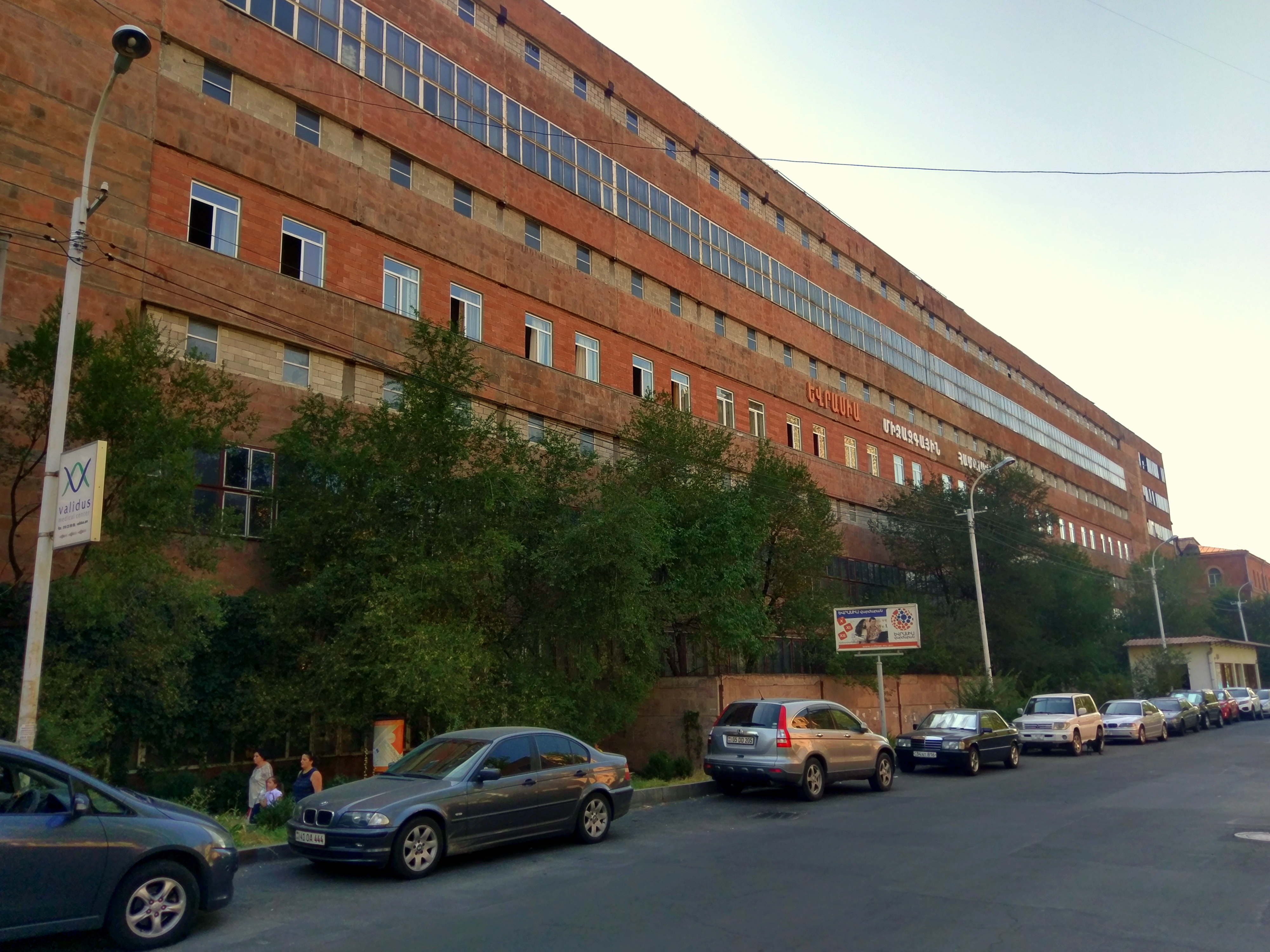 Eurasia Int. University, Aharonian Street, Yerevan.